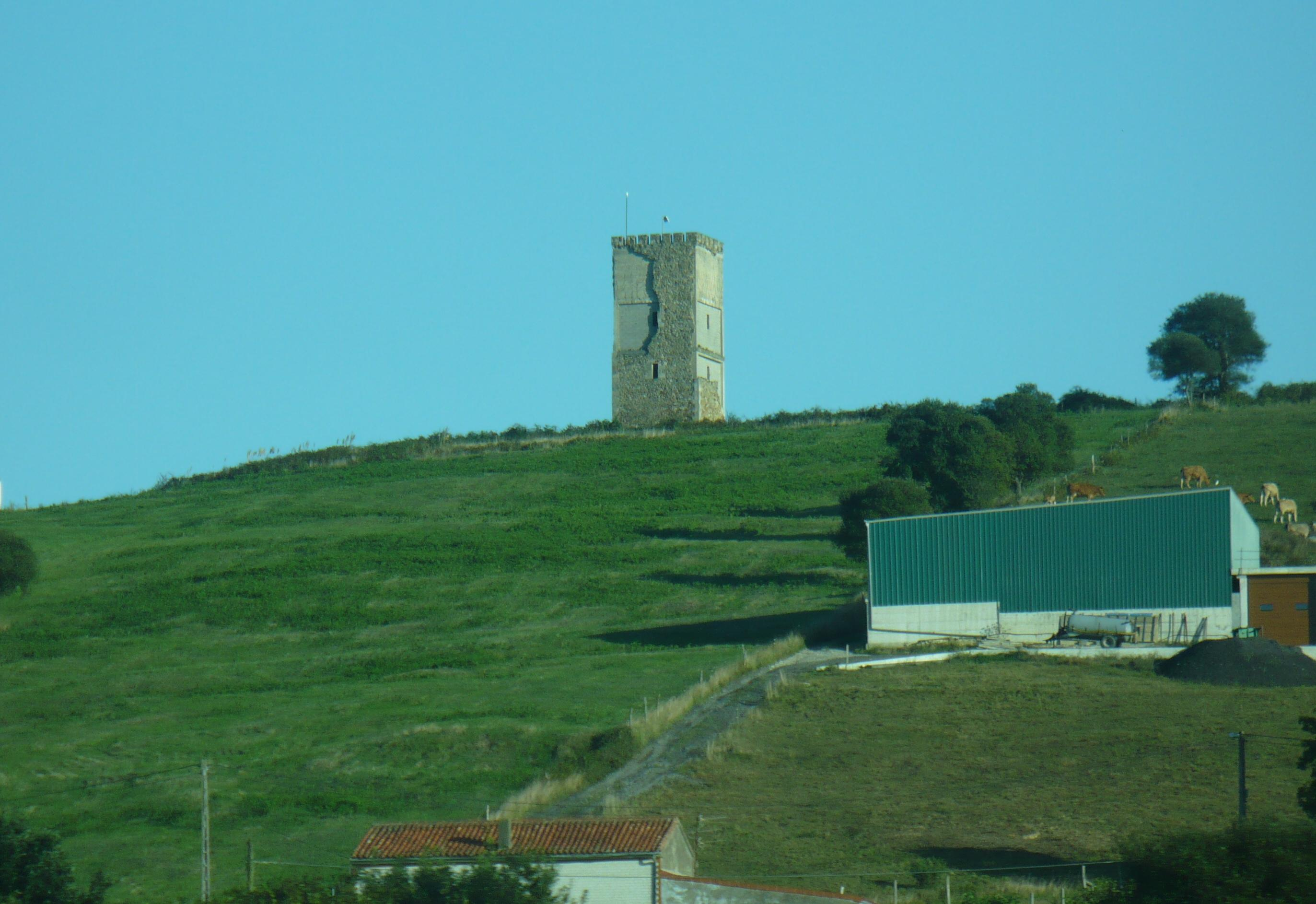 Valmoreda tower in Oruña (Piélagos, Cantabria)